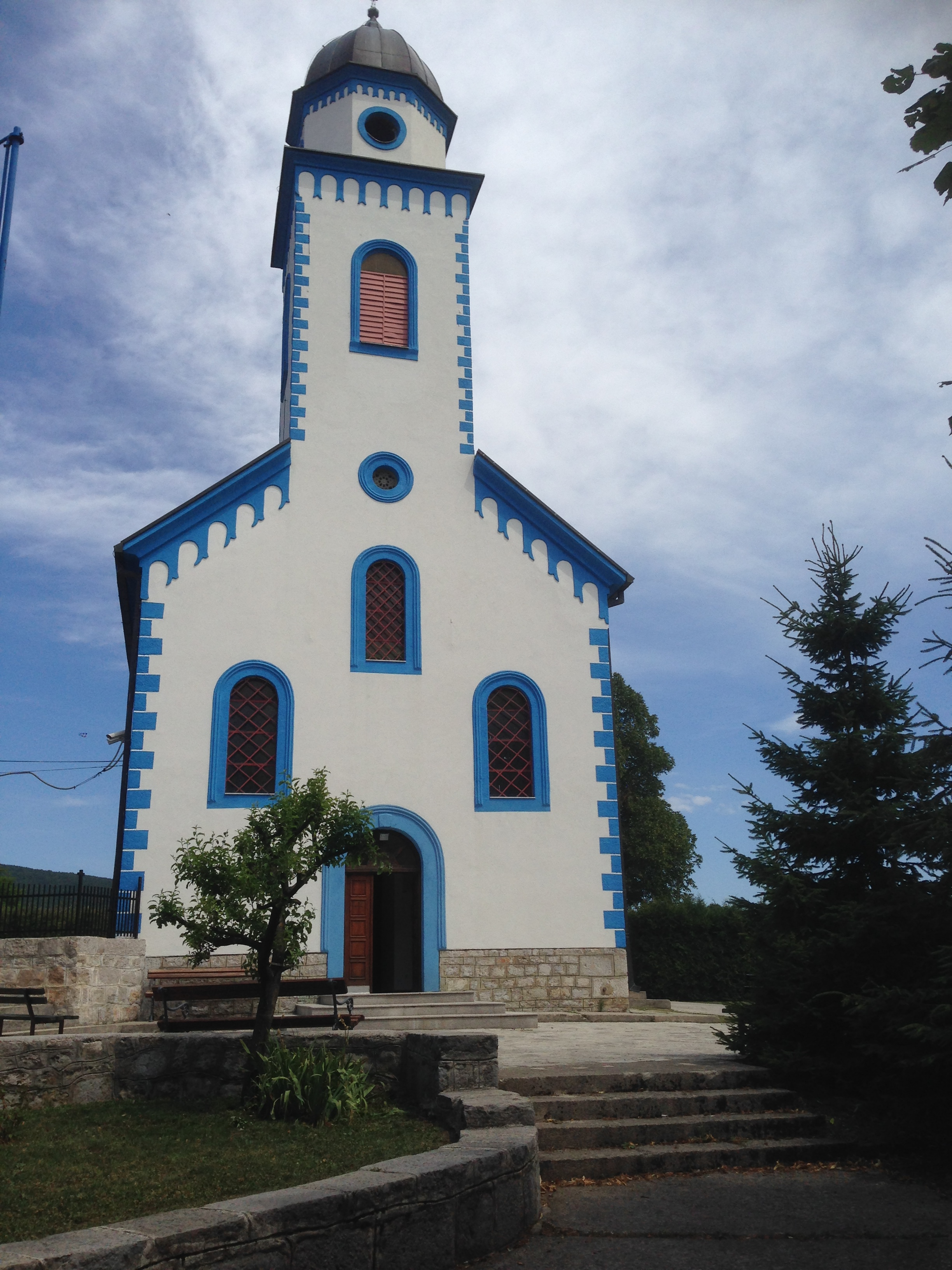 Saints Peter and Paul Orthodox Cathedral in Bosanski Petrovac